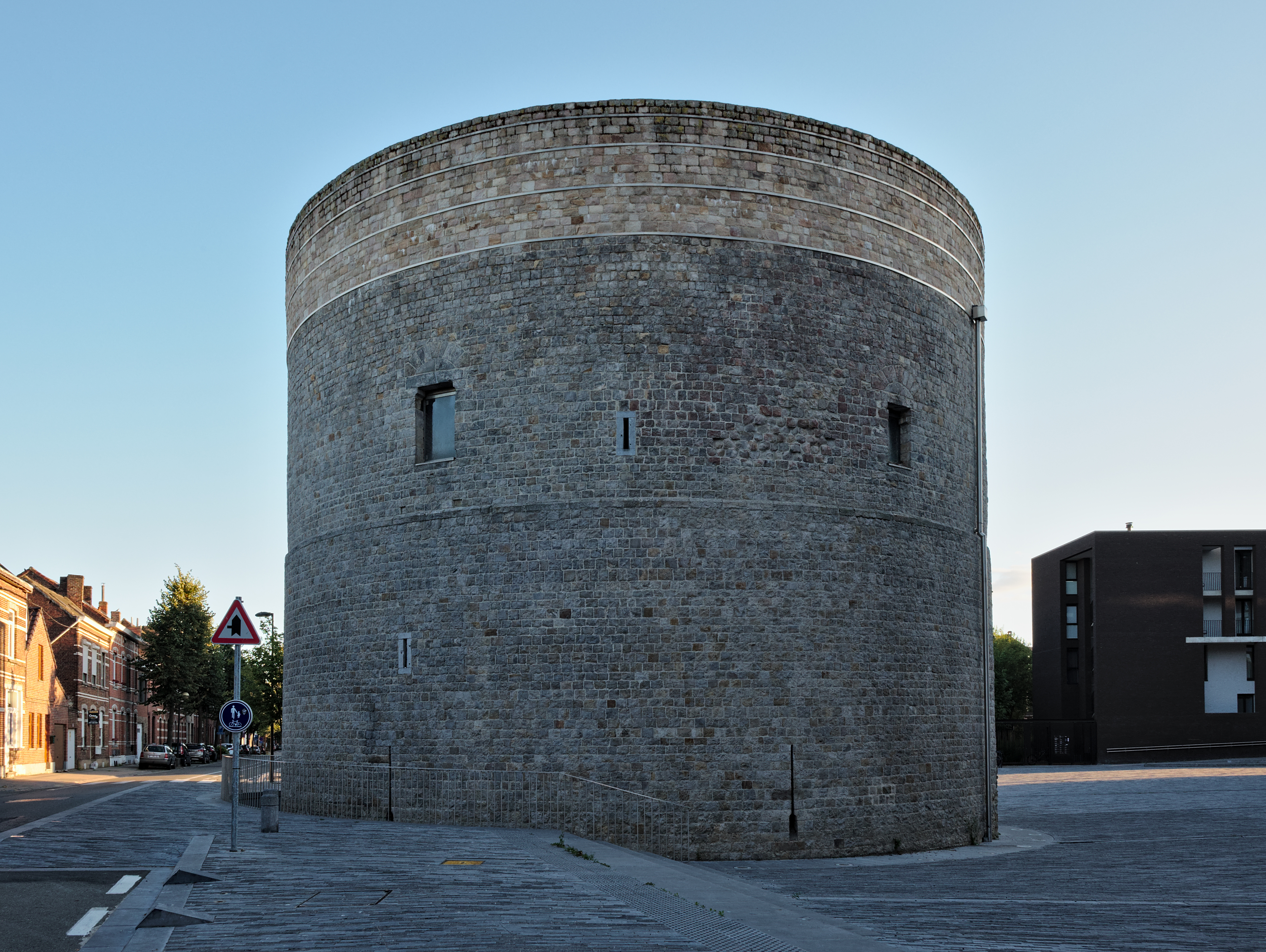 Tour Valenciennoise in Mons, Belgium This photo of immovable heritage has been taken in the Walloon Region